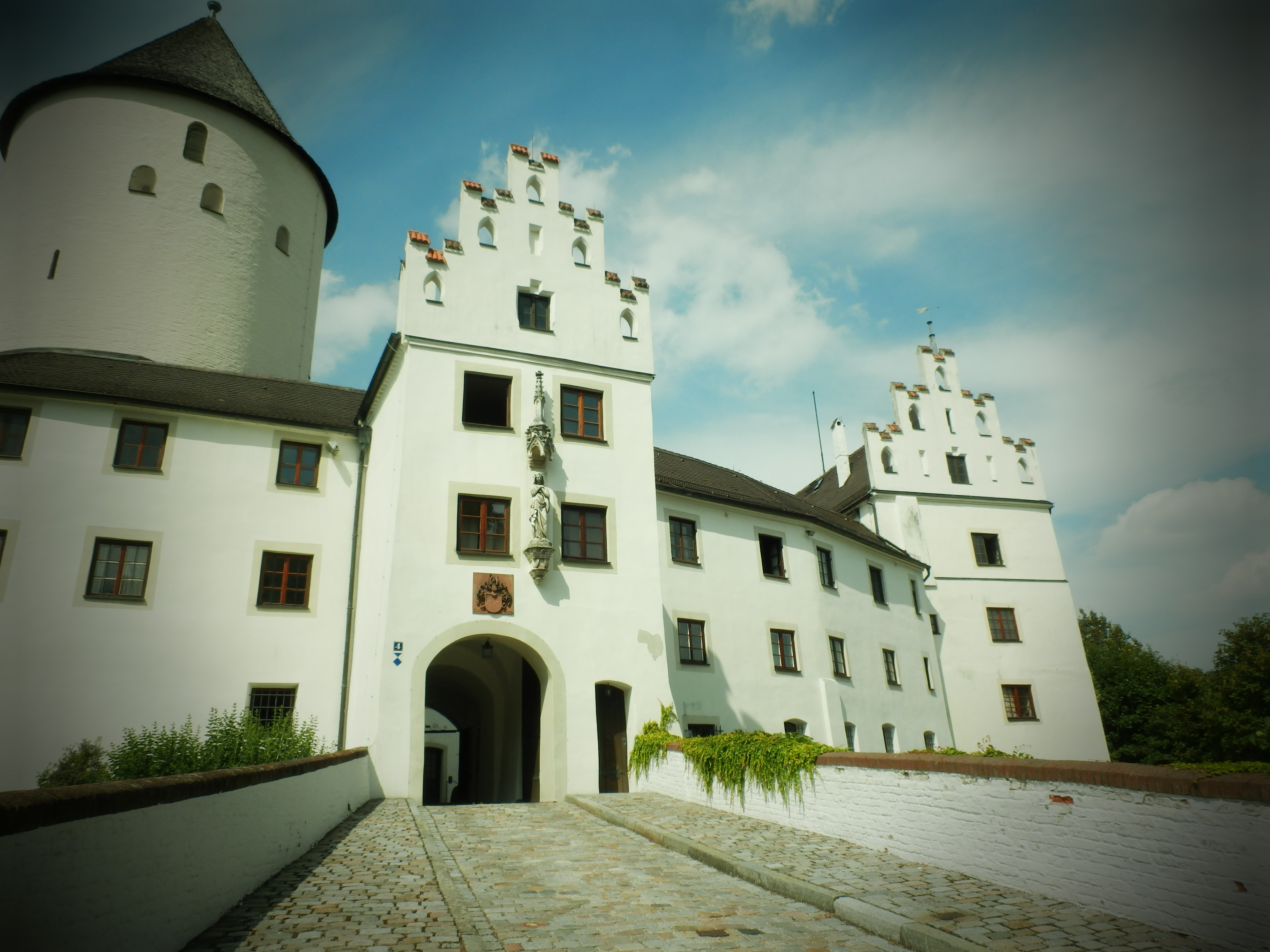 Kronwinkl, Germany by Stefanjurca on Flickr